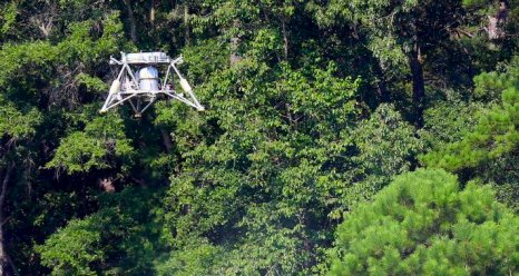 Mighty Eagle prototype lander flies at the Marshall Center on Aug. 8, 2012.